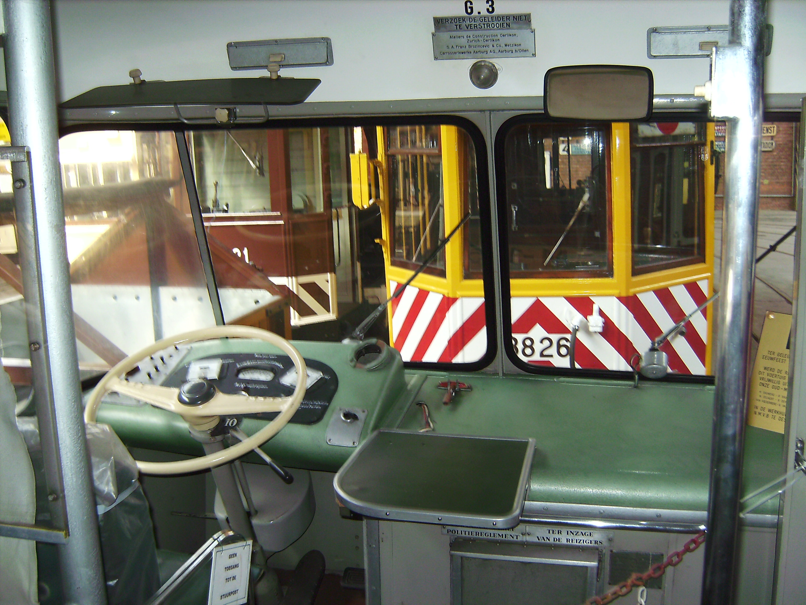 Driver's place of the Gyrobus G3, the only surviving gyrobus in the world (build in 1955 in the Flemish tamway and bus museum, Antwerp.